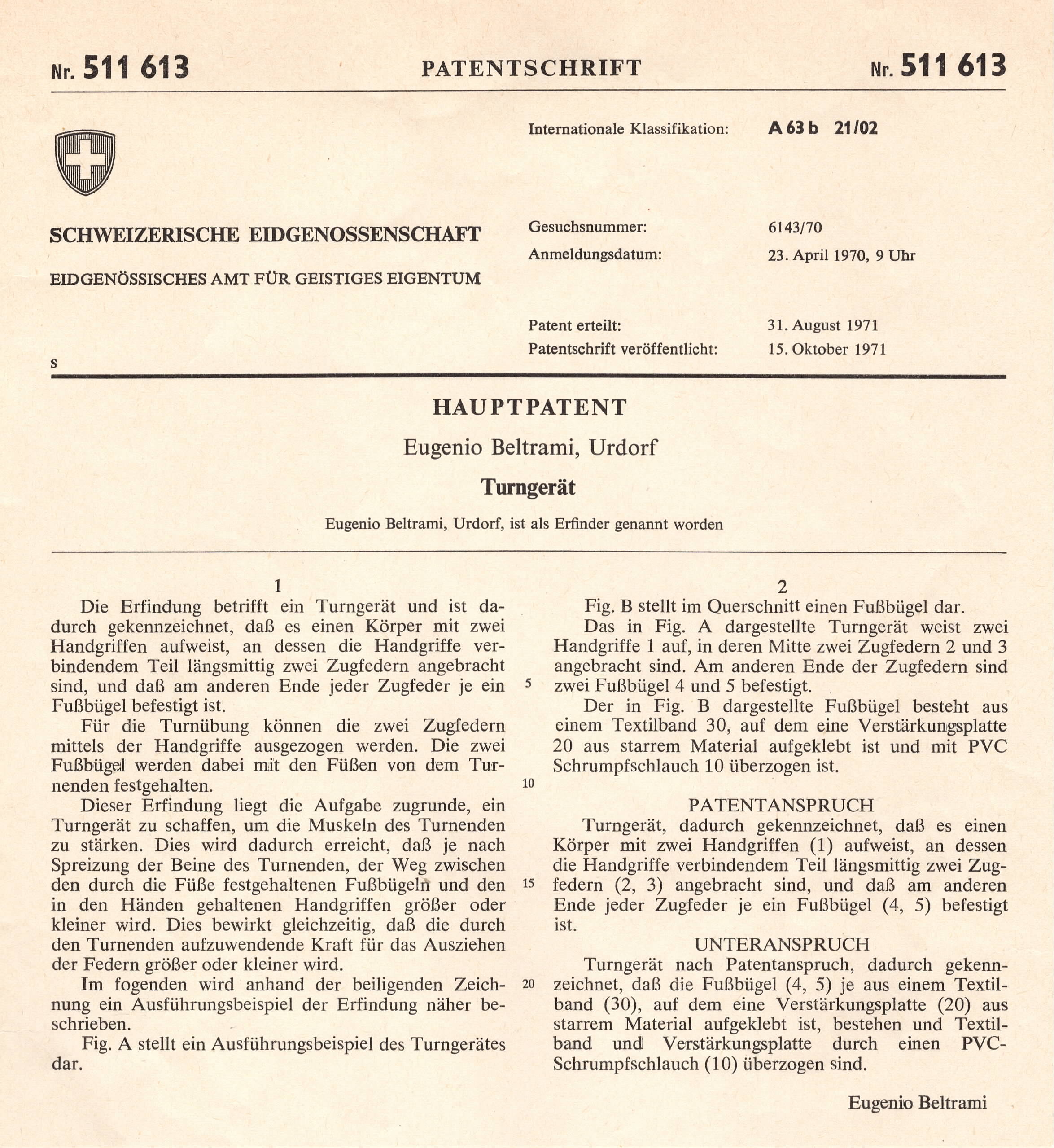 Swiss patent certification Eugenio Beltrami 1971